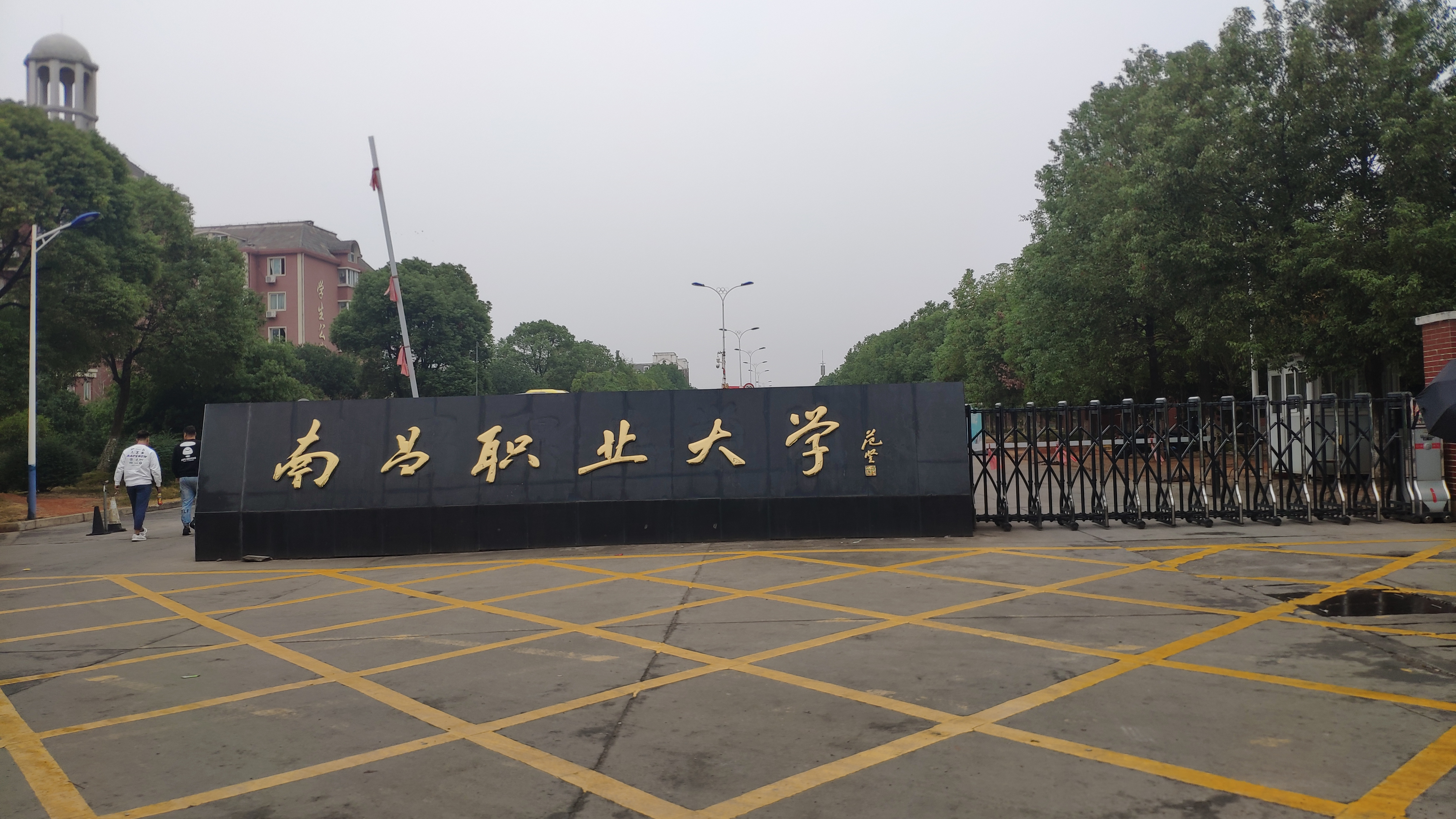 Nanchang Vocational College